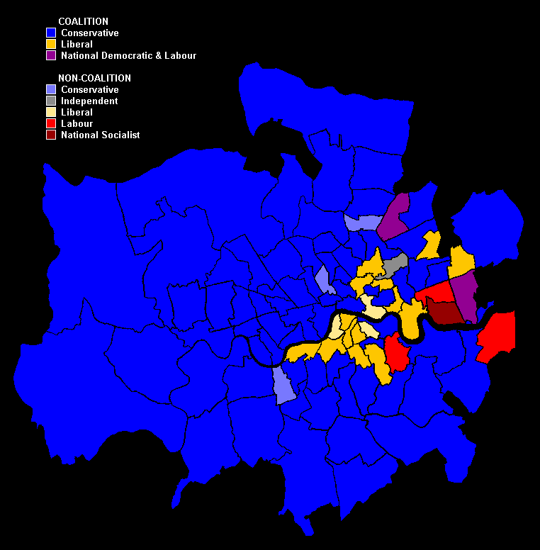 The result of the 1918 General Election for the County of London, for Middlesex, and the then-metropolitan seats of Surrey, Kent and Essex (that is, those parts closest to London all later absorbed into Greater London in 1965). The outer part of the southwest Middlesex seat, named Spelthorne, here contested for the first time is in today's Surrey. The northern inward projection of Barnet, Hertfordshire is excluded from the County of London then and it majority-voted Conservative in 1918 as the neighbouring seats did. As well as today's London Borough of Barnet (NNW) the boundaries of the post-1965 county extend more in all easterly directions and a little to south-southwest, including Sutton and Cheam.